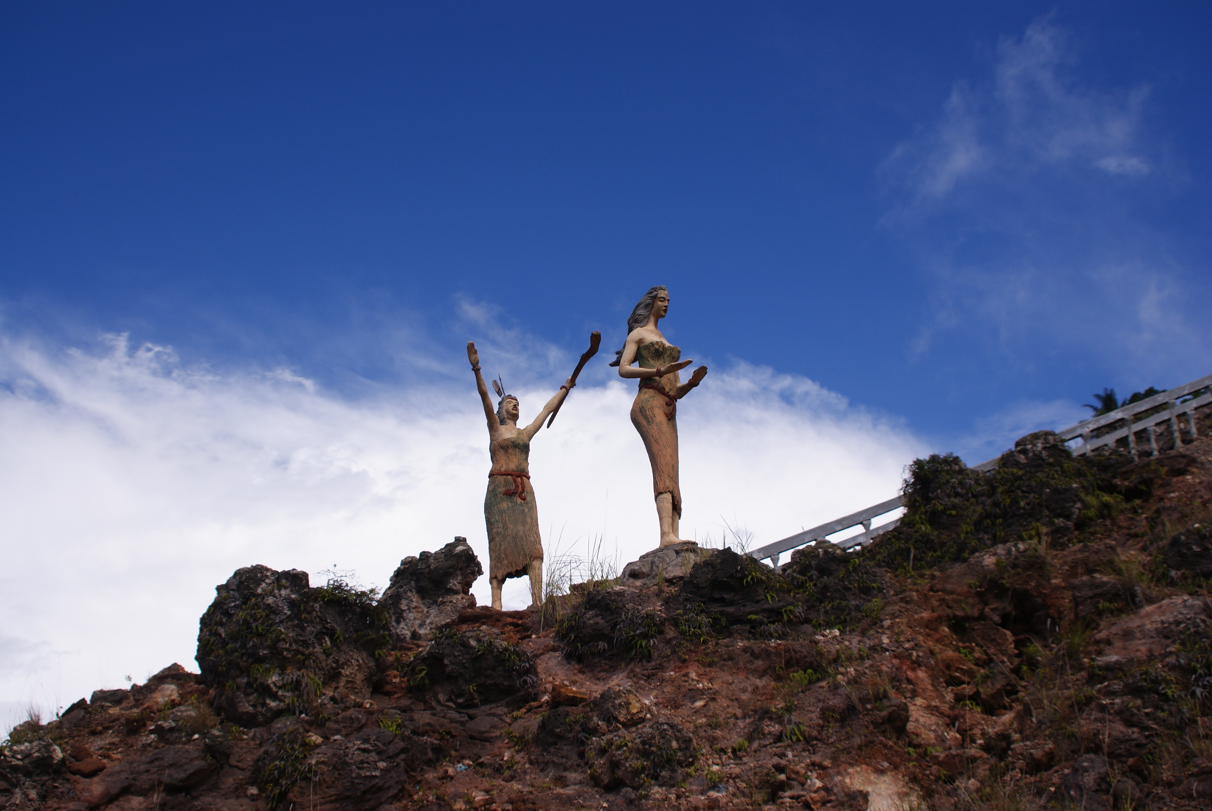 Statue of Toar and Lumimuut (ancestors of Minahasa) at Bukit Kasih, Kanonang, Kawangkoan, North Sulawesi, Indonesia